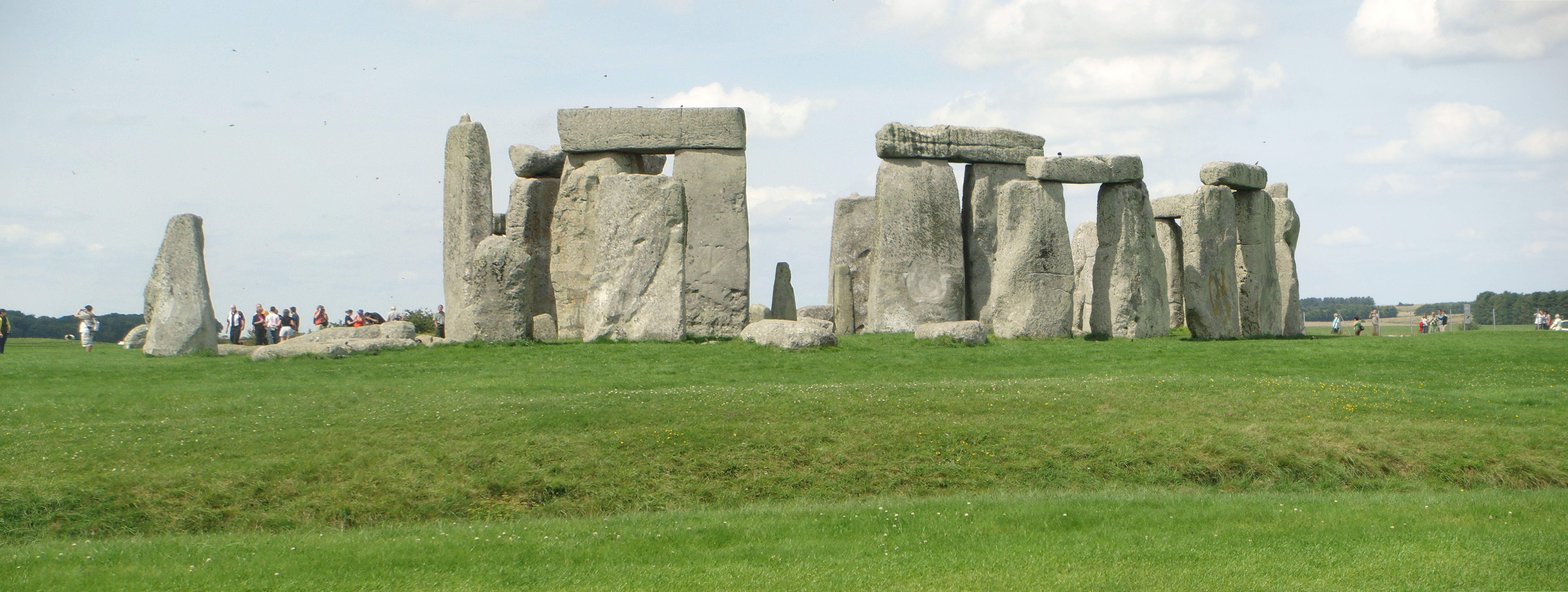 Stonehenge, Panoramic, Wiltshire, England